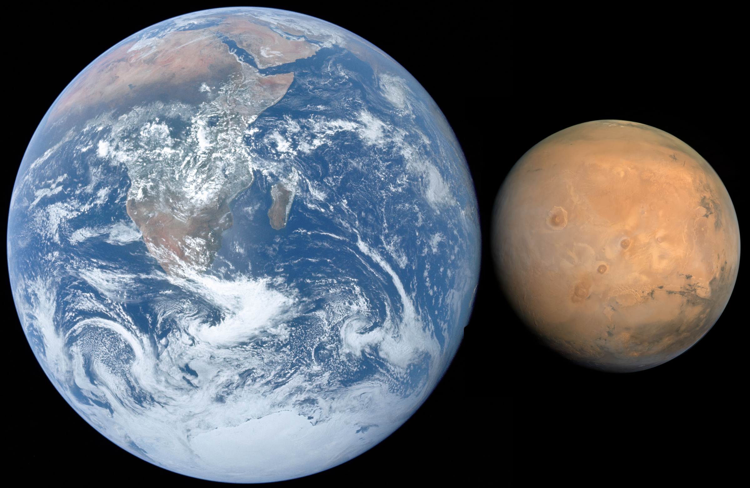 Size comparison of Earth and Mars.